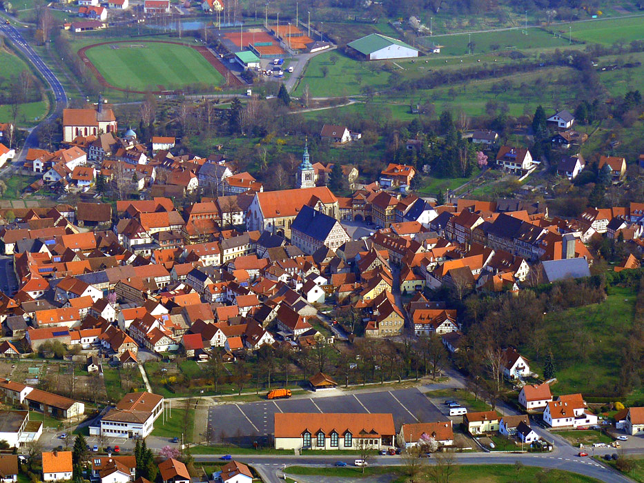 picture showing the city of Königsberg in Bayern, Bavaria, Germany